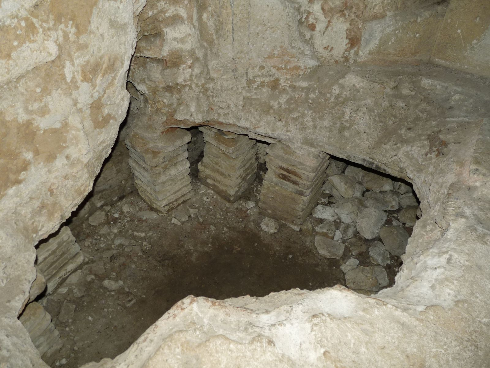 remains of roman villa thermae under the church of Thaims, Charente-Maritime, SW France